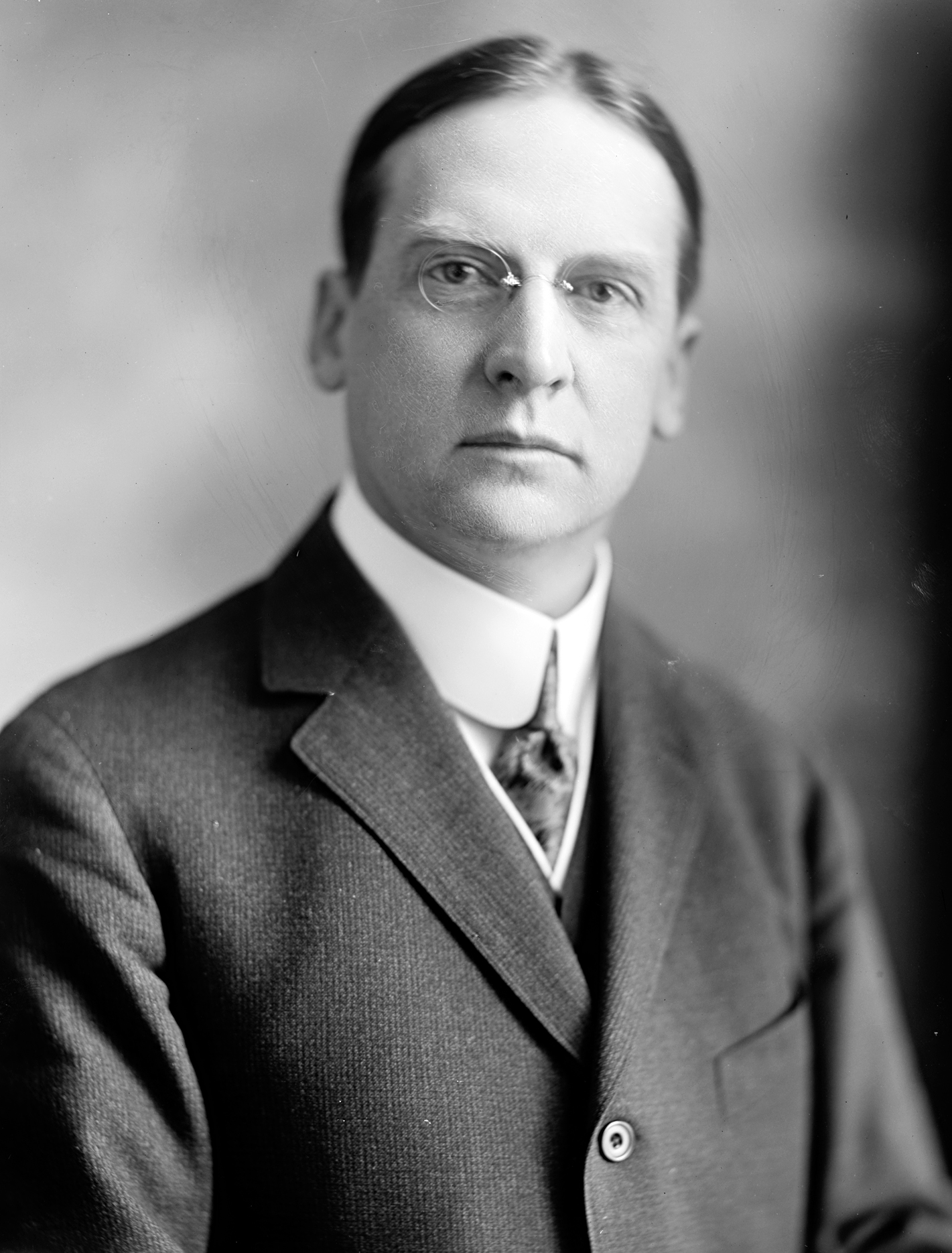 Joseph R. Knowland, US Representative from California